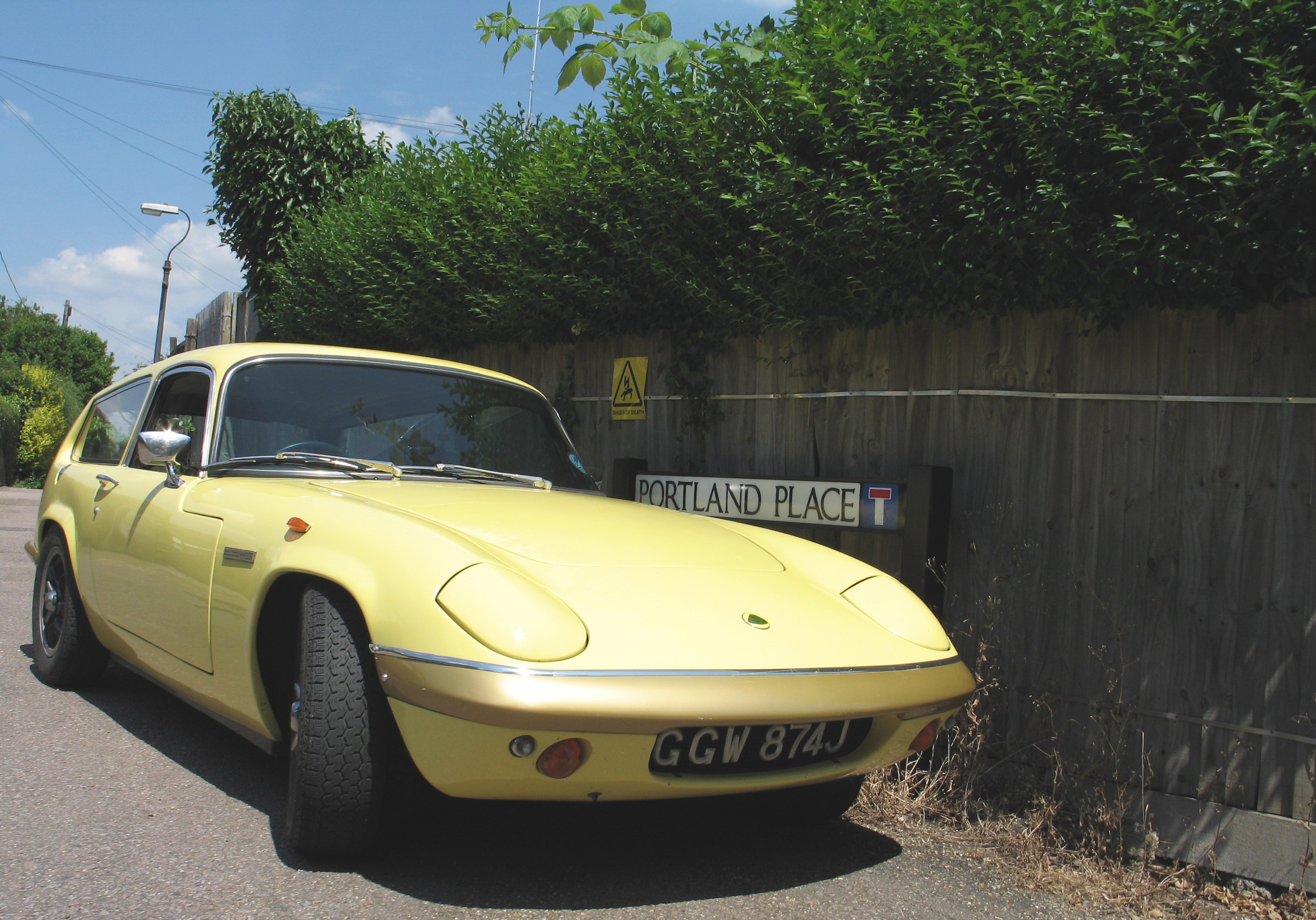 Lotus Elanbulance